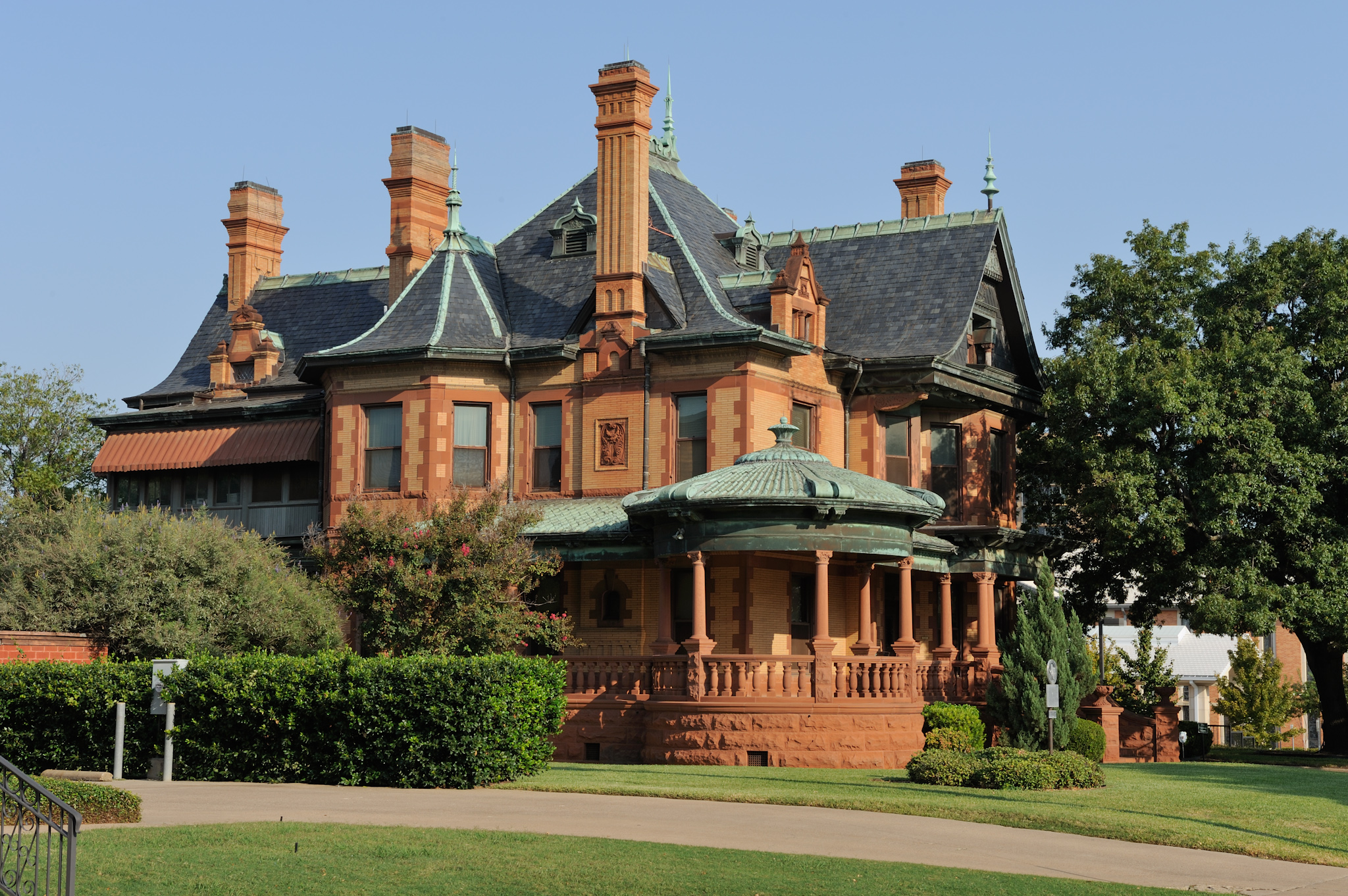 Eddleman-McFarland HouseView of the Eddleman-McFarland House from the South. One of the few remaining mansions in the area once known as Quality Hill in Fort Worth, Texas. NRHP Ref 79003009.